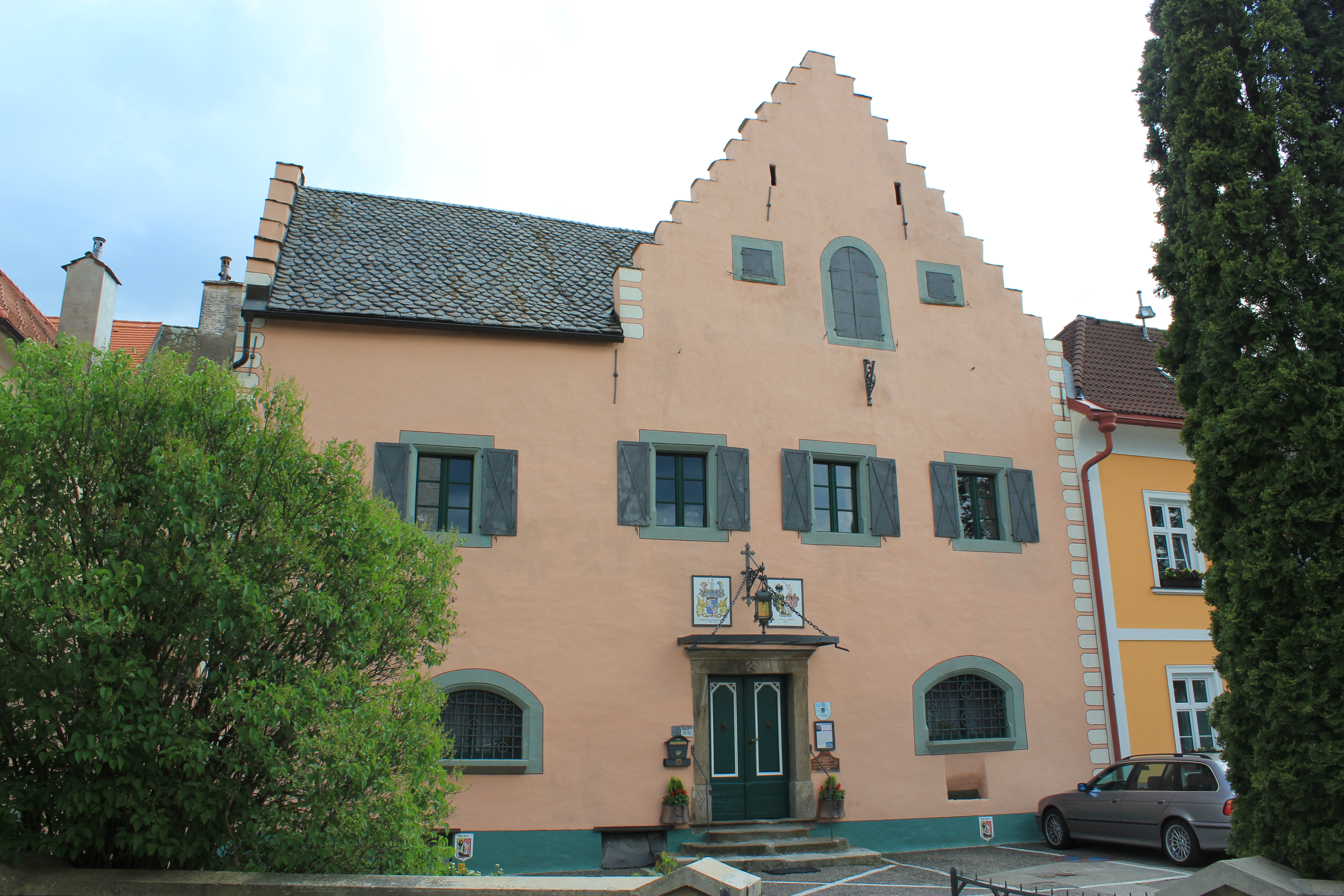 New castle in Althofen